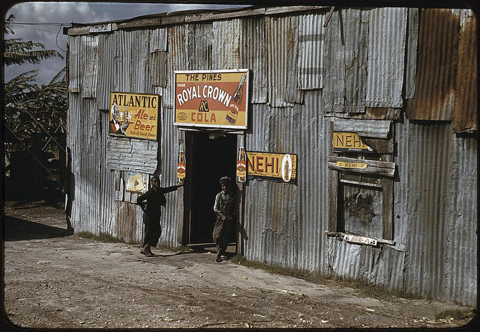 African American migratory workers by a "juke joint". Belle Glade, Florida, February 1941.